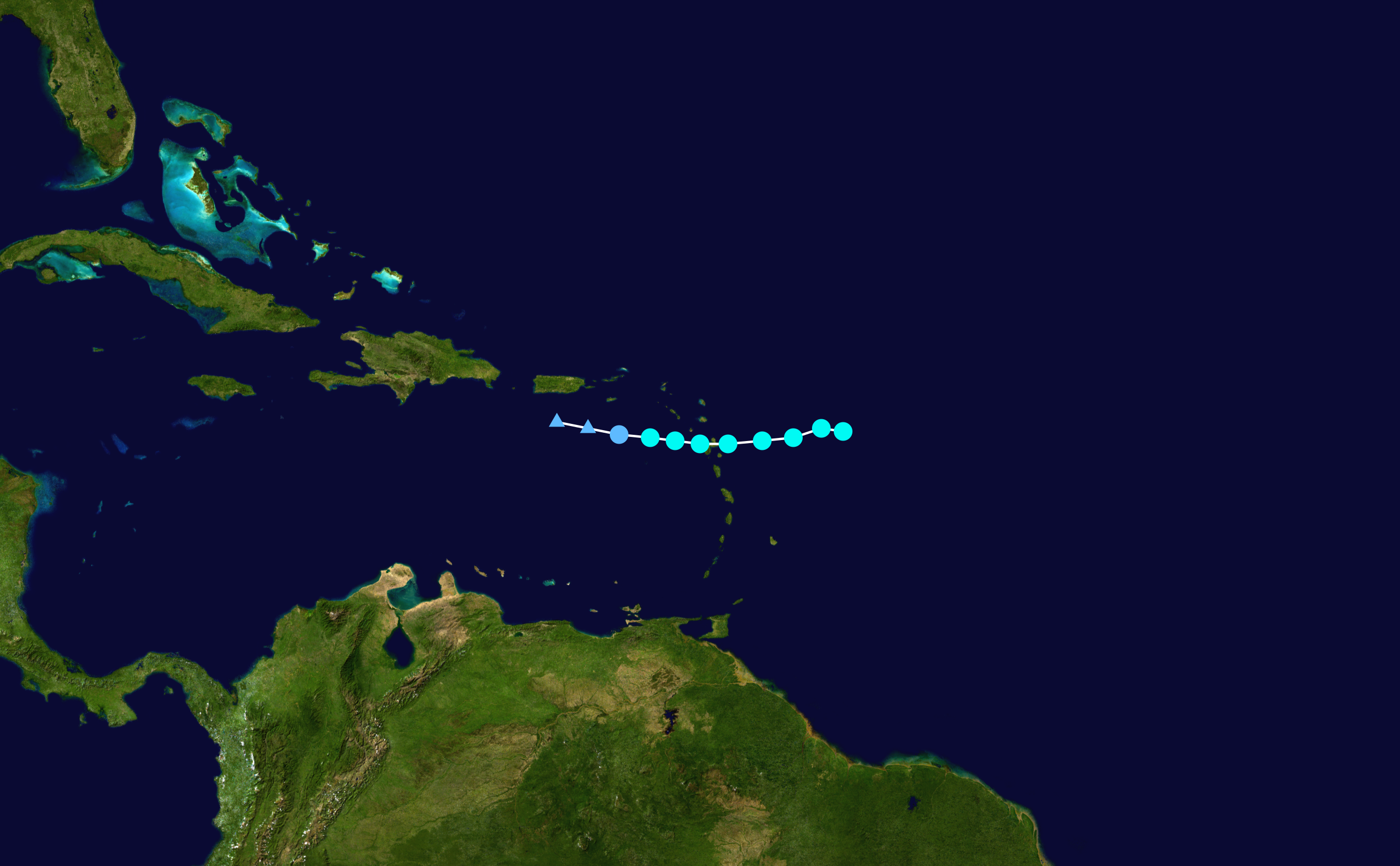 Track map of Tropical Storm Erika of the 2009 Atlantic hurricane season. The points show the location of the storm at 6-hour intervals. The colour represents the storm's maximum sustained wind speeds as classified in the Saffir–Simpson scale (see below), and the shape of the data points represent the nature of the storm, according to the legend below. Saffir–Simpson scale Tropical depression≤38 mph≤62 km/h Category 3111–129 mph178–208 km/h Tropical storm39–73 mph63–118 km/h Category 4130–156 mph209–251 km/h Category 174–95 mph119–153 km/h Category 5≥157 mph≥252 km/h Category 296–110 mph154–177 km/h Unknown Storm type Tropical cyclone Subtropical cyclone Extratropical cyclone / Remnant low / Tropical disturbance / Monsoon depression